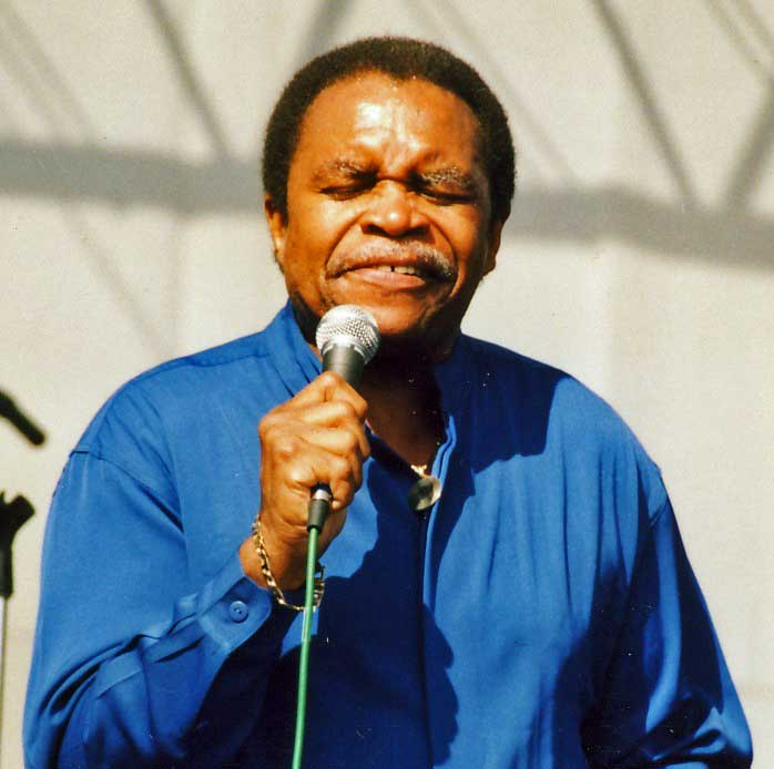 Otis Clay at the Long Beach Blues Festival